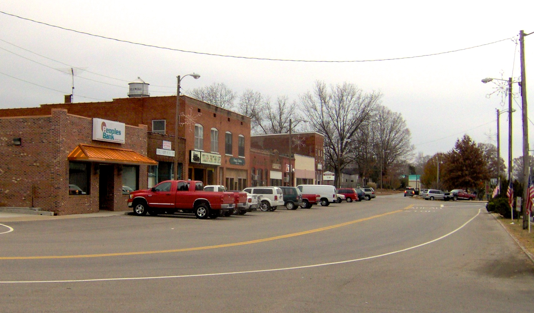 East Main Street in Englewood, Tennessee, USA.